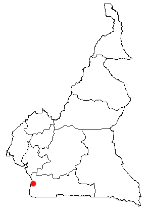 Kribi, Cameroon Location Map; created with the GIMP. Made by User:Acntx.